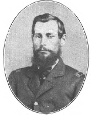 This is a crop of photo of Captain George W. Nieman, of the 18th Pennsylvania Cavalry in the American Civil War.